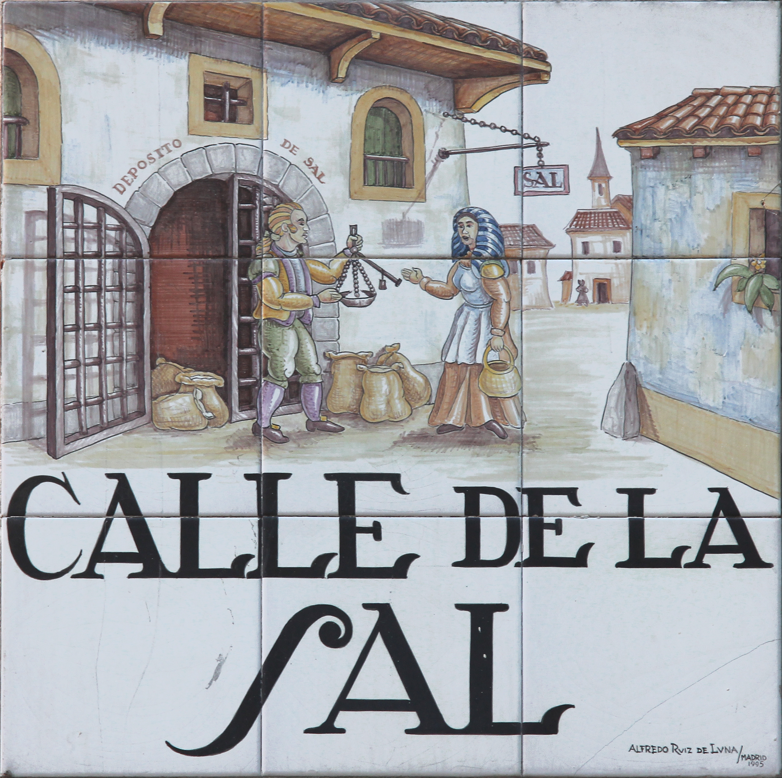 Sign of Calle de la Sal (street) in Madrid (Spain).